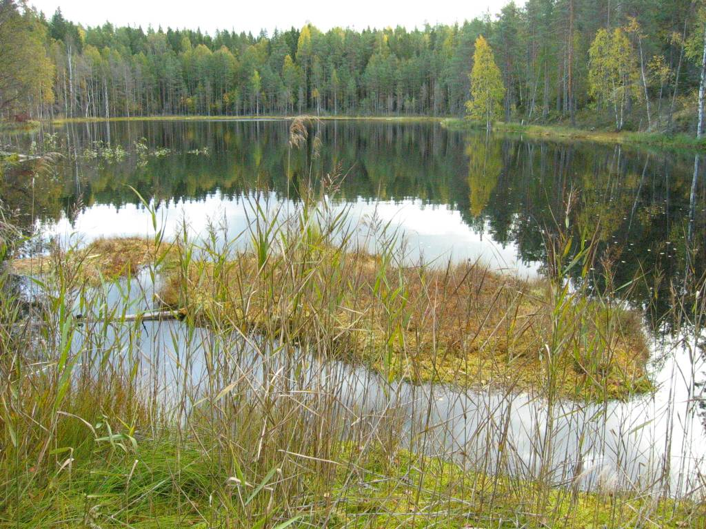 Isojärvi National Park in Kuhmoinen, Finland